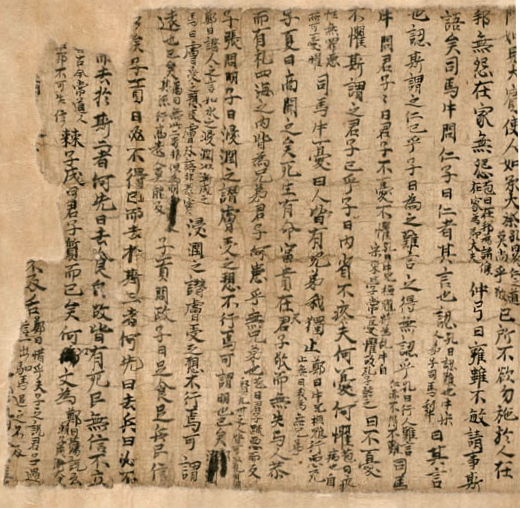 Analects of Confucius, from the Mogao Caves in Dunhuang, China